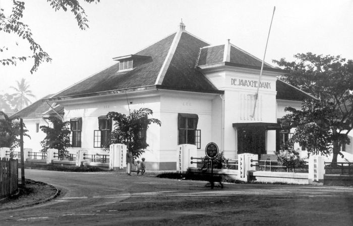 Office of the Java Bank